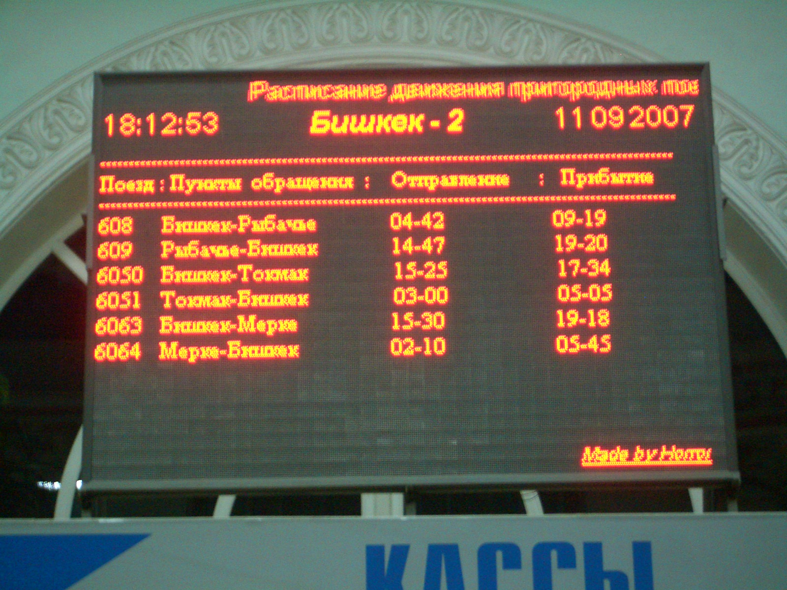 Inside Bishkek-2, Bishkek's main train station. The electronic display shows the schedule of commuter trains.